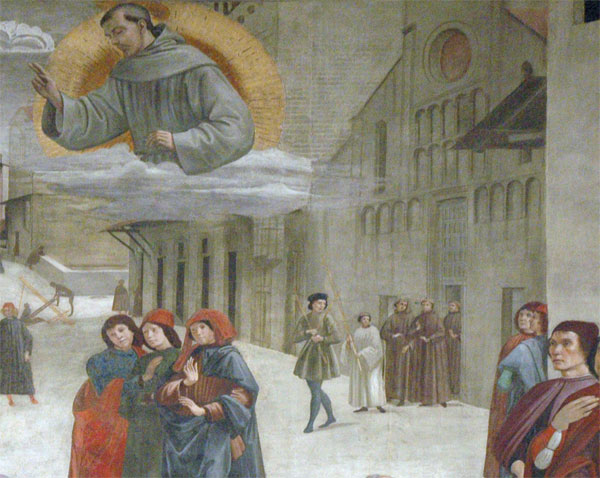 Santa Trinita. Sassetti Chapel. Florence